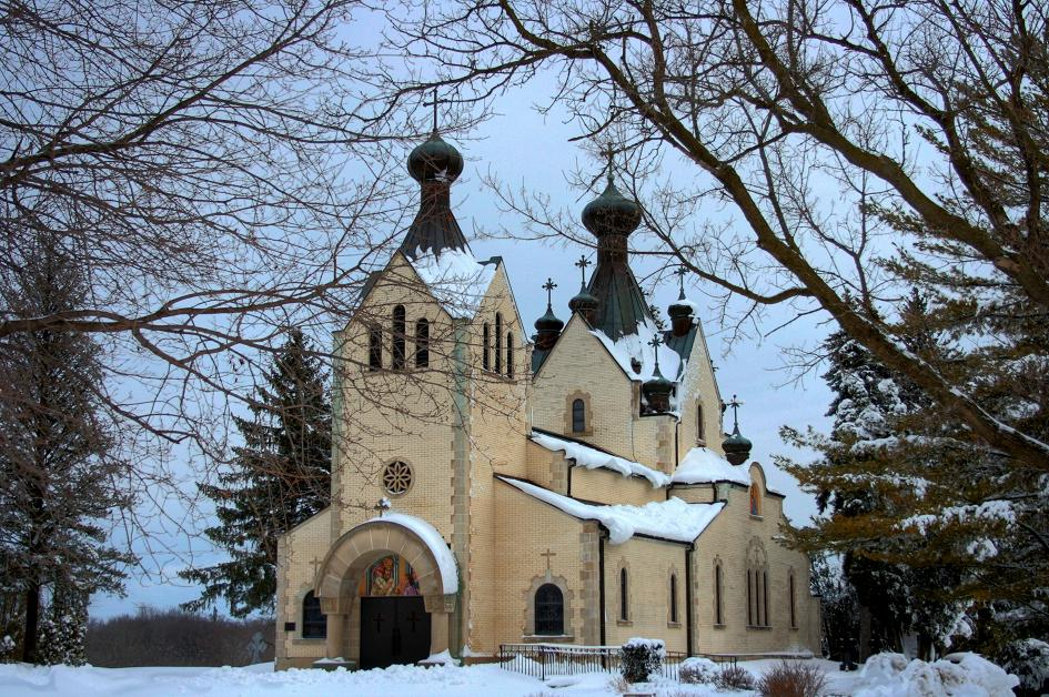 Serbian King Peter II is the only European royalty buried in America. He is interred at the St. Sava Monastery Church at Libertyville, Illinois, the only European monarch buried on American soil